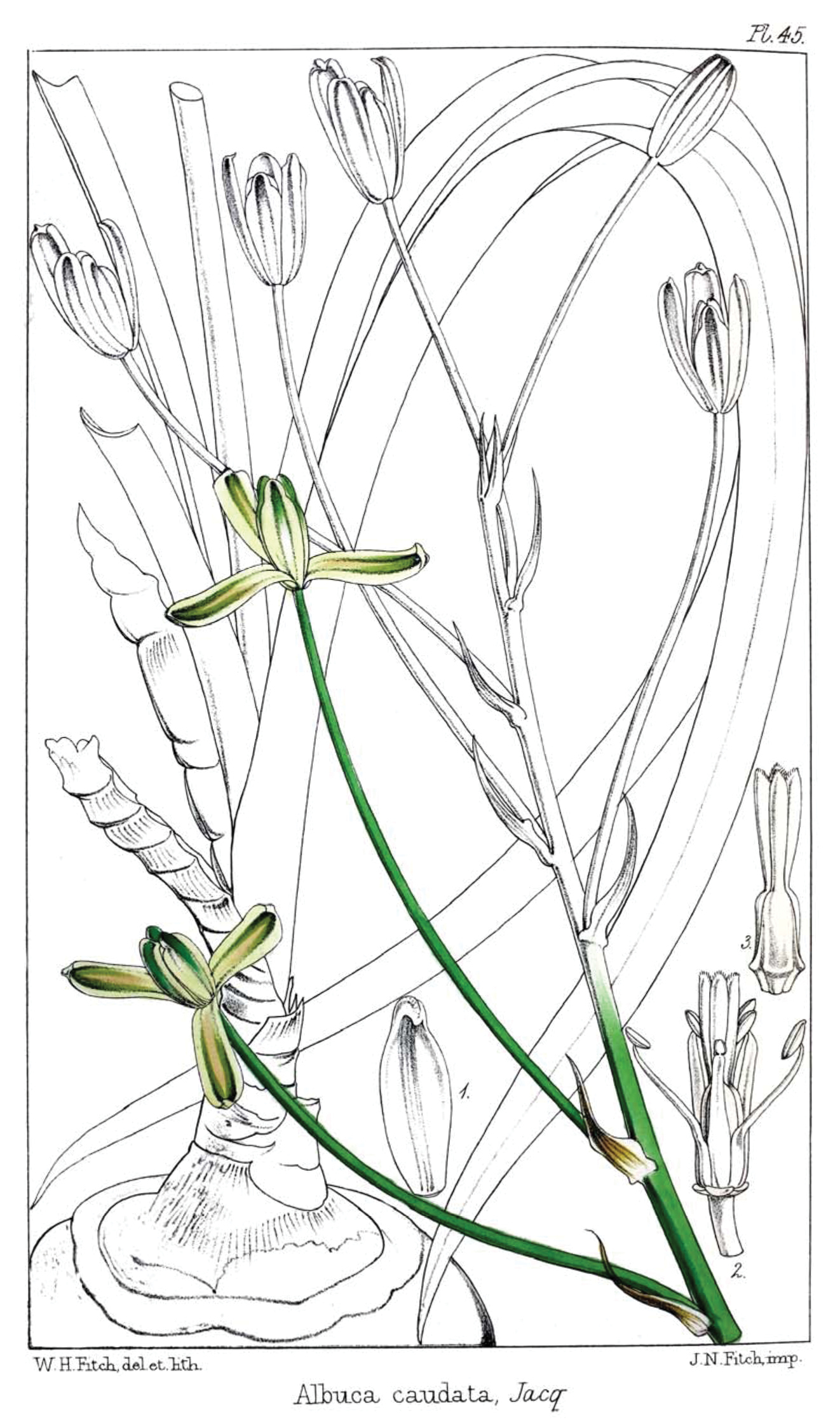 Albuca bakeri Mart.-Azorín & M.B. Crespo from Baker, Refug. Bot. (Saunders) vol. 1, t. 45. 1869 (as Albuca caudata).